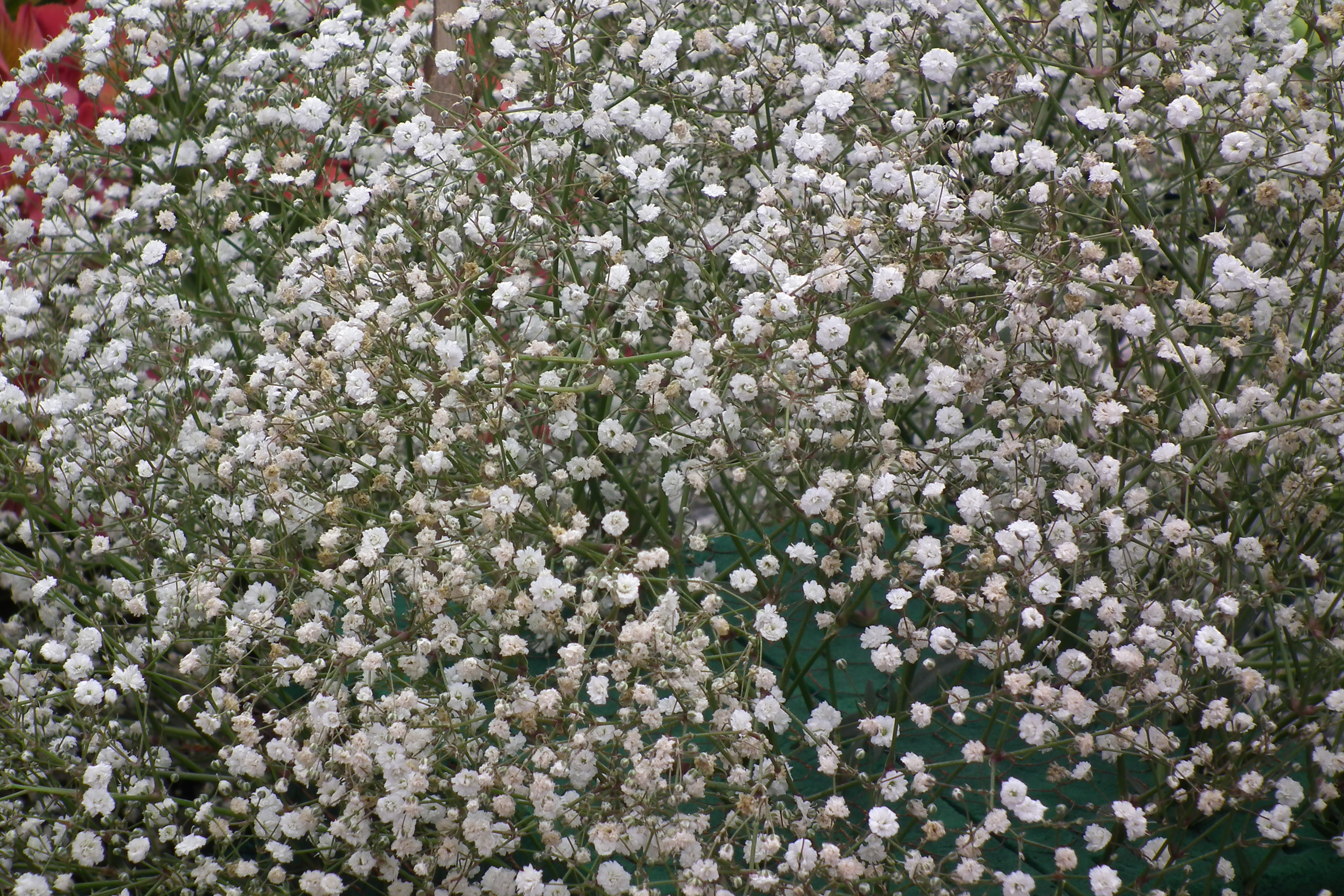 Gypsophila elegans from Lalbagh Garden, Bangalore, INDIA during the Annual flower show in August 2011.